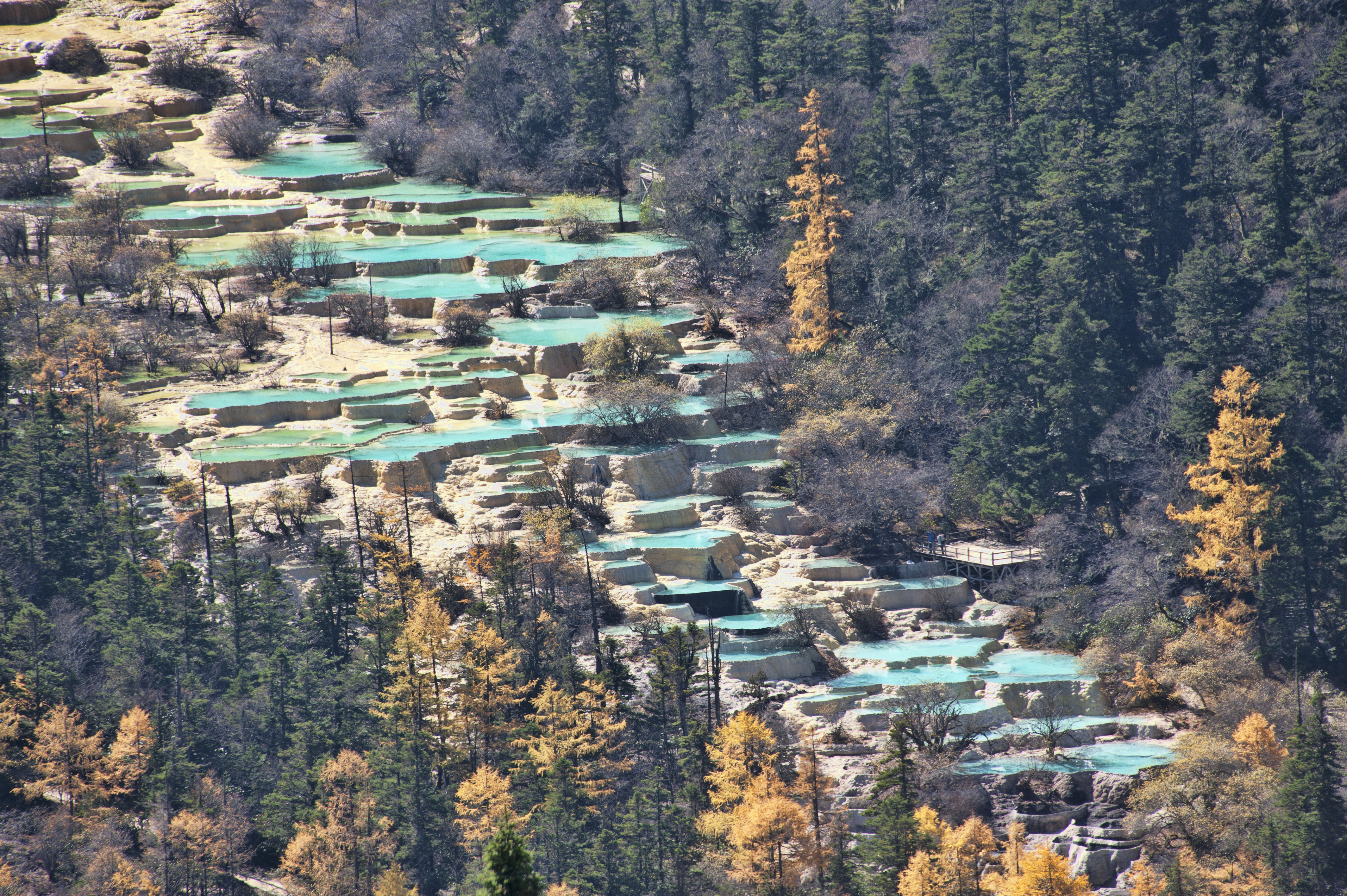 huanglong sichuan china fall autumn 2011 aerial view of pools